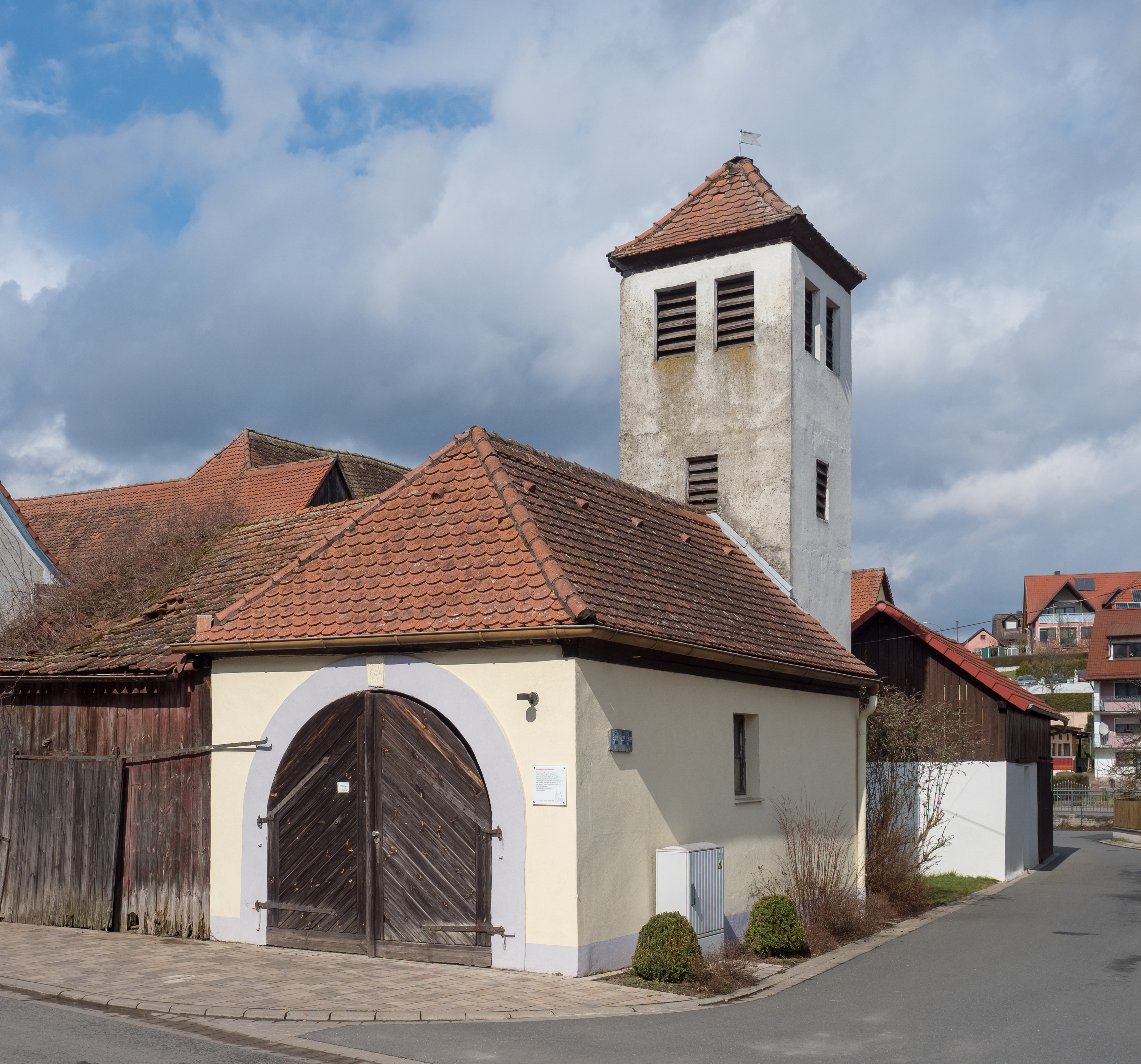 Former fire station in Steppach